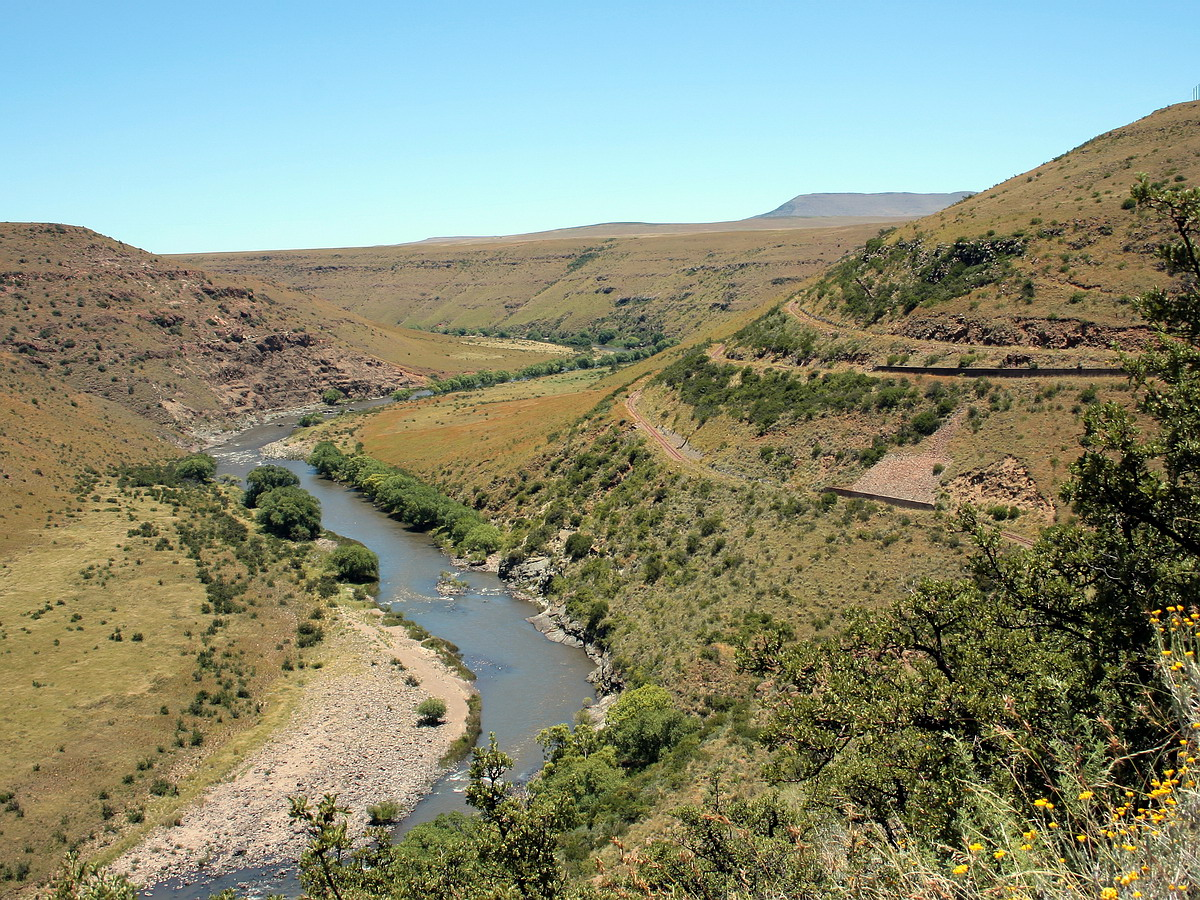 Kraai river on sediments of the Clarens formation, some 1,700 metres a.s.l.. View west showing the climbing railway tracks.